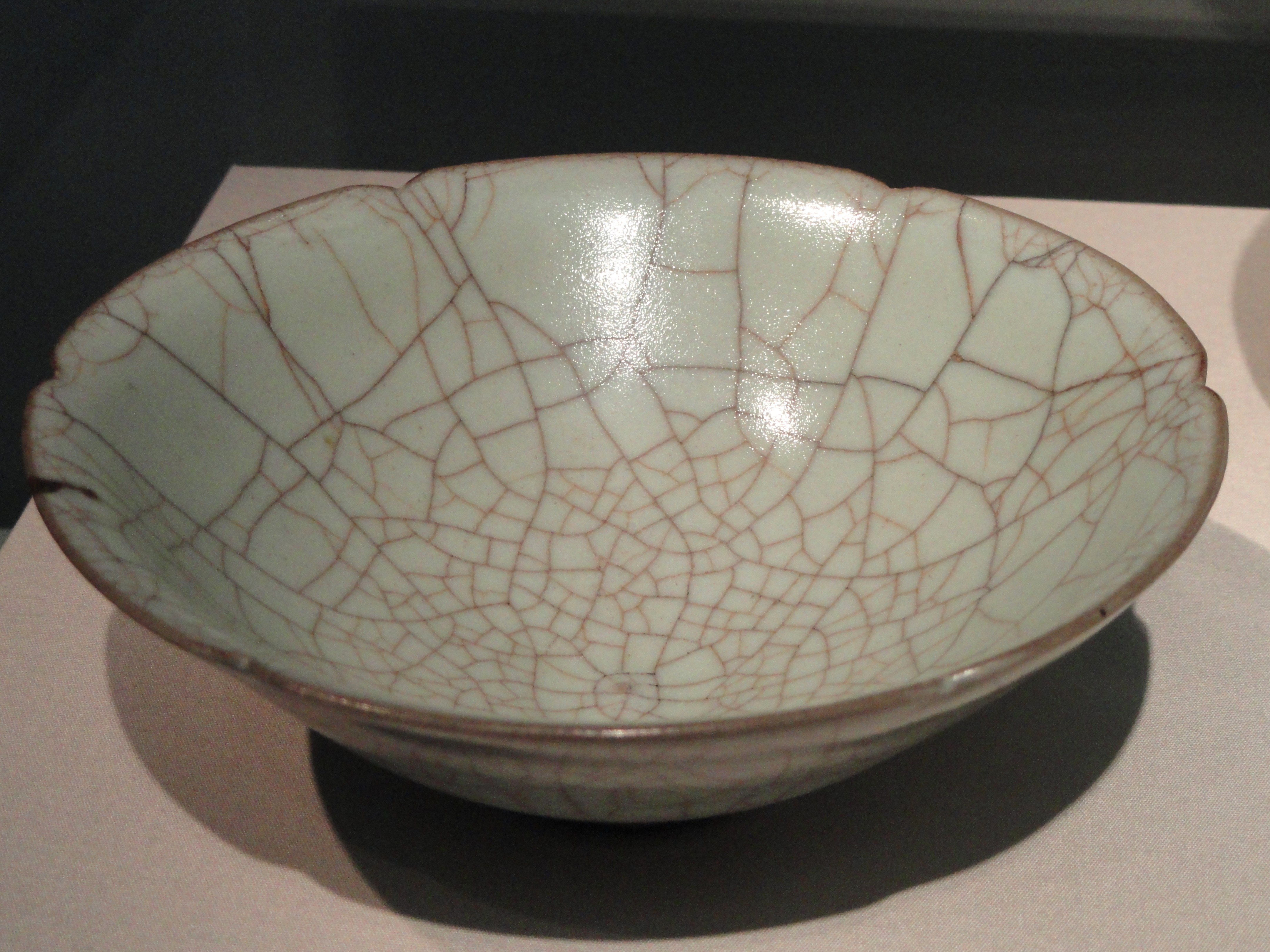 Exhibit in the Freer Gallery of Art, Washington, DC, USA. This artwork is old enough so that it is in the public domain.